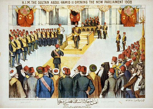 An old postcard celebrating the new Parliament (1908)